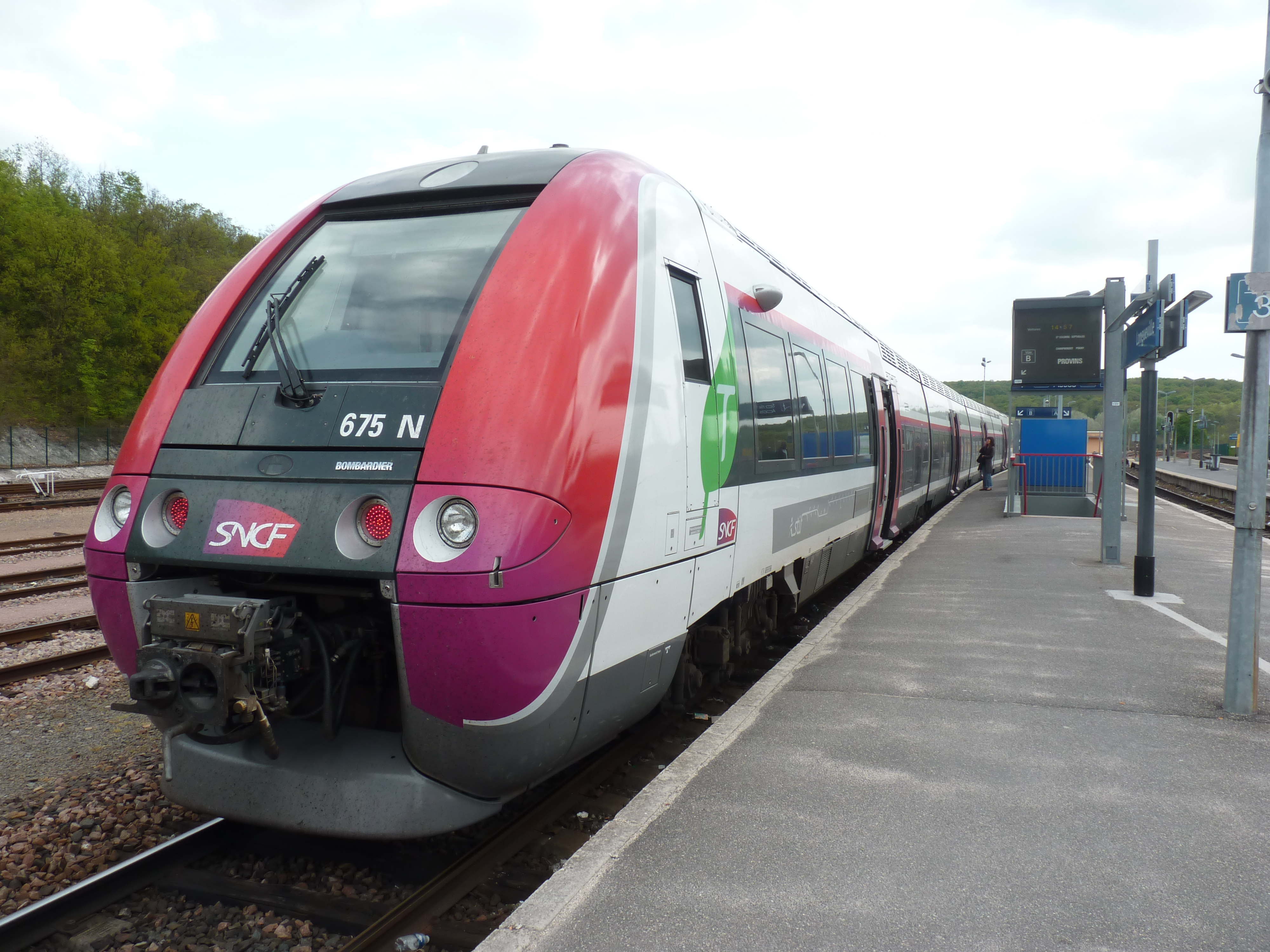 The SNCF B 82675-676 at Longueville station towards Provins.